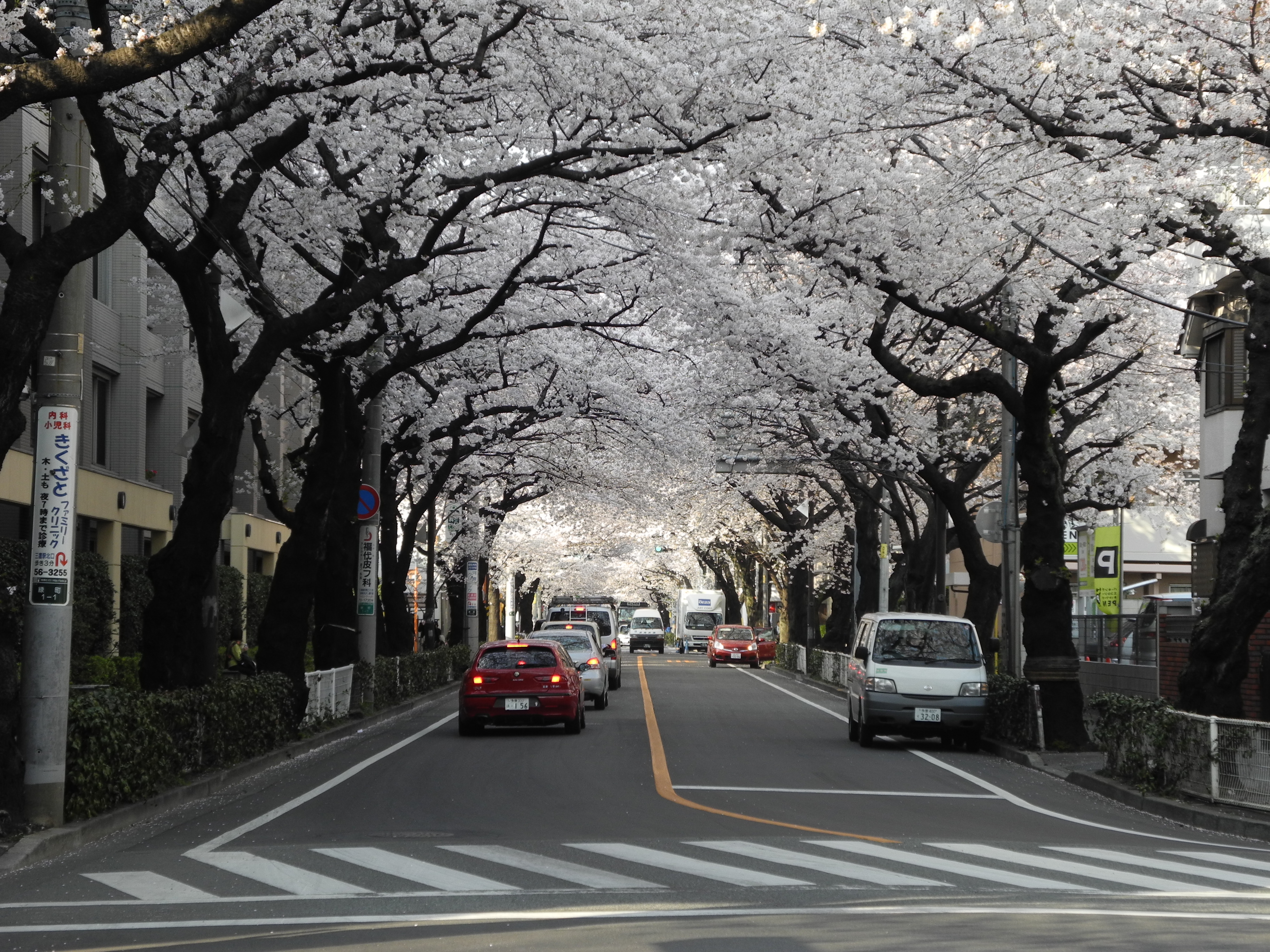 Cherry blossoms along a main street in Musashino, not far NW of Kichijoji.